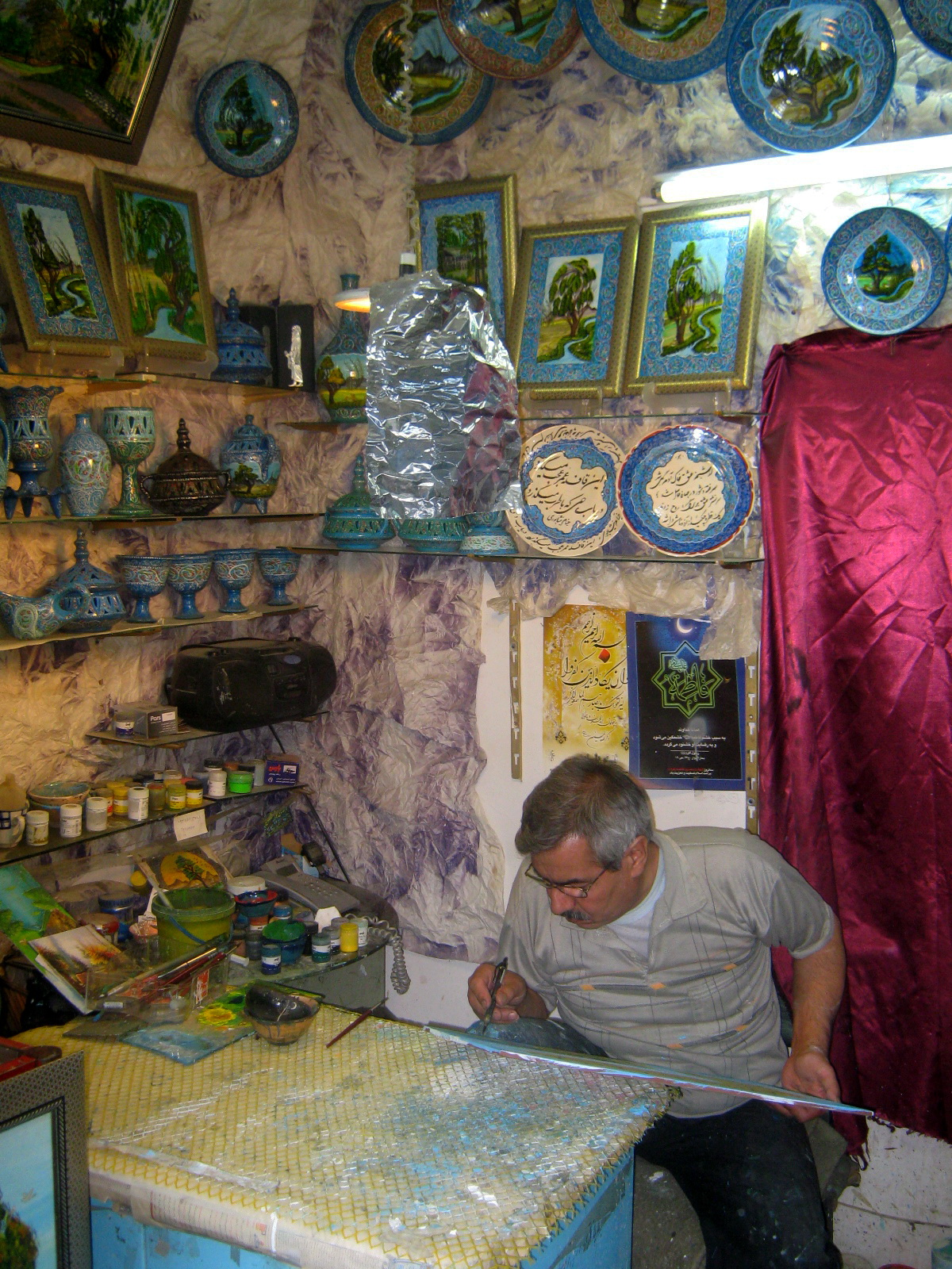 Abbasid Caravanseray of Nishapur (Ribati-i-Abbasi of Nishapur) - Morning